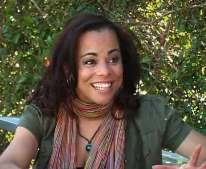 Sabra Williams